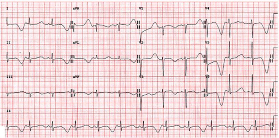 ECG from an individual with long QT syndrome demonstrating T-wave alternans